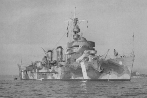 Picture of the Swedish cruiser HMS Fylgia.